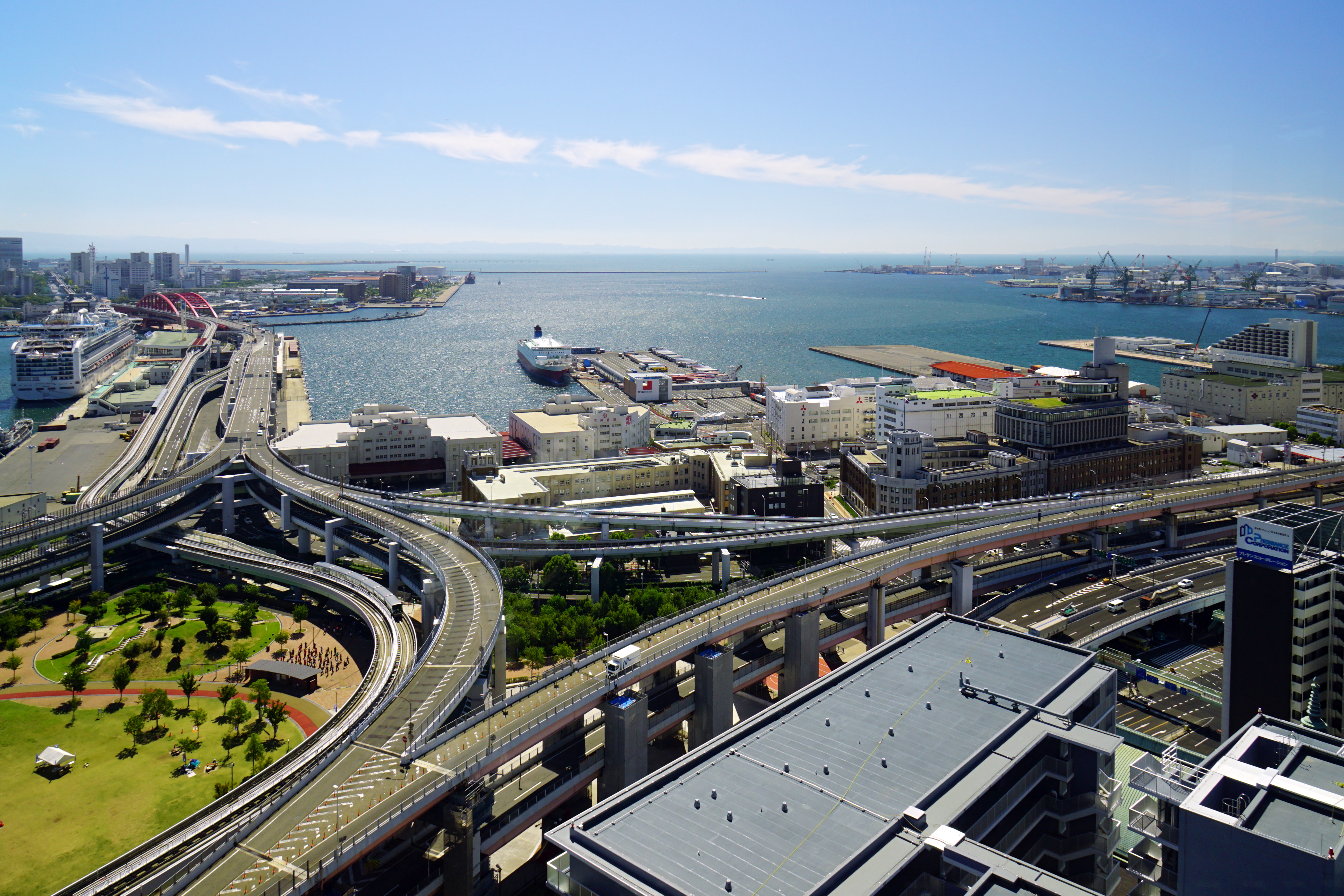 Shiko, Kobe Port in Kobe Hyogo prefecture, Japan.